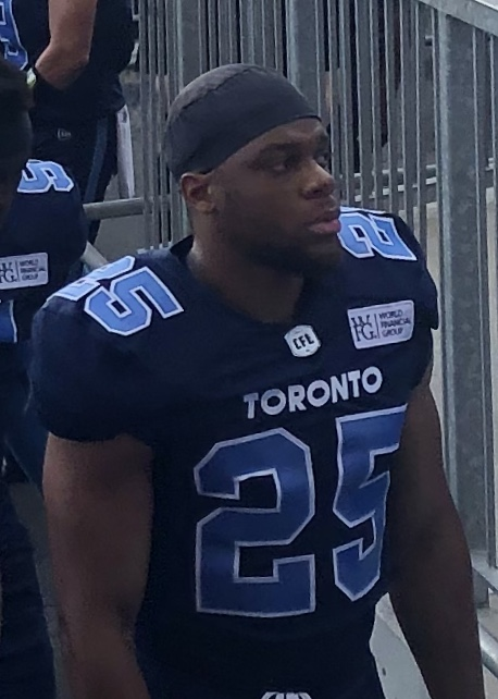 Regis Cibasu, full back and receiver for the Toronto Argonauts.